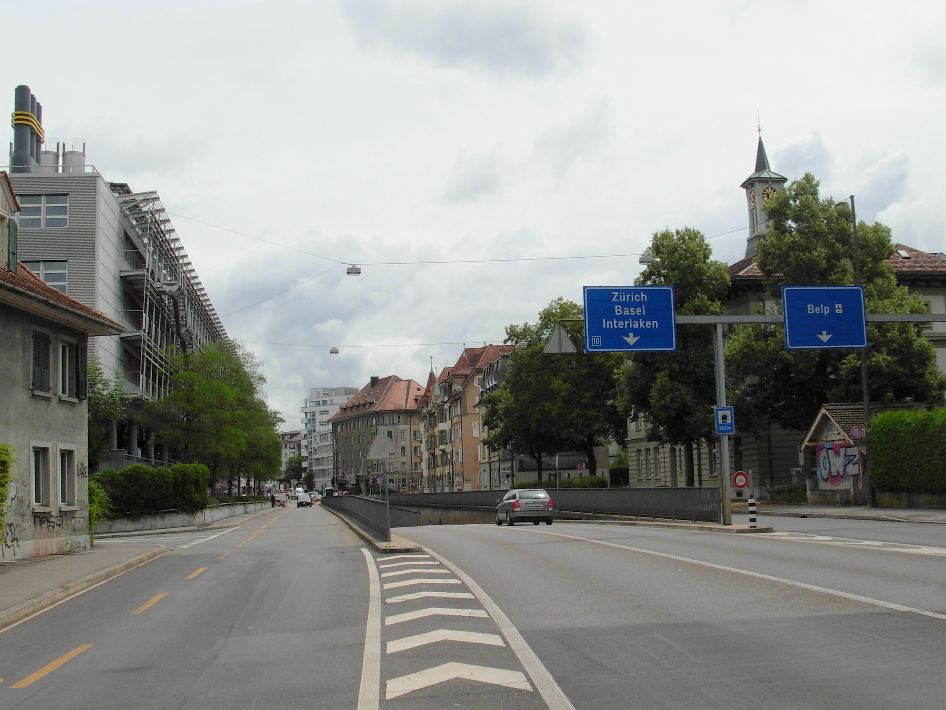 Eigerstrasse, Sulgenbach, Bern, Switzerland